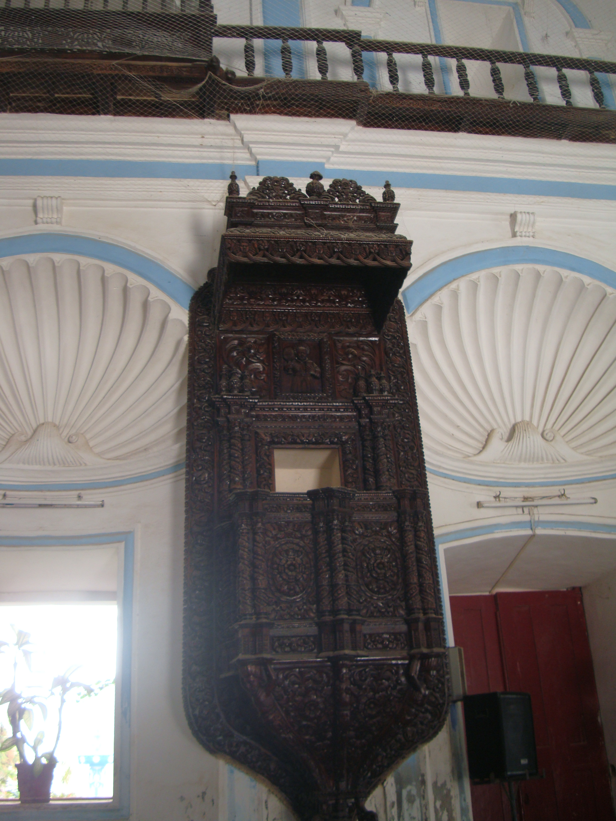 Church of St Paul